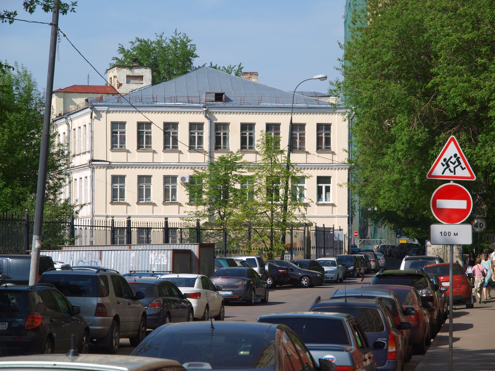 Maronovsky Lane in Moscow.